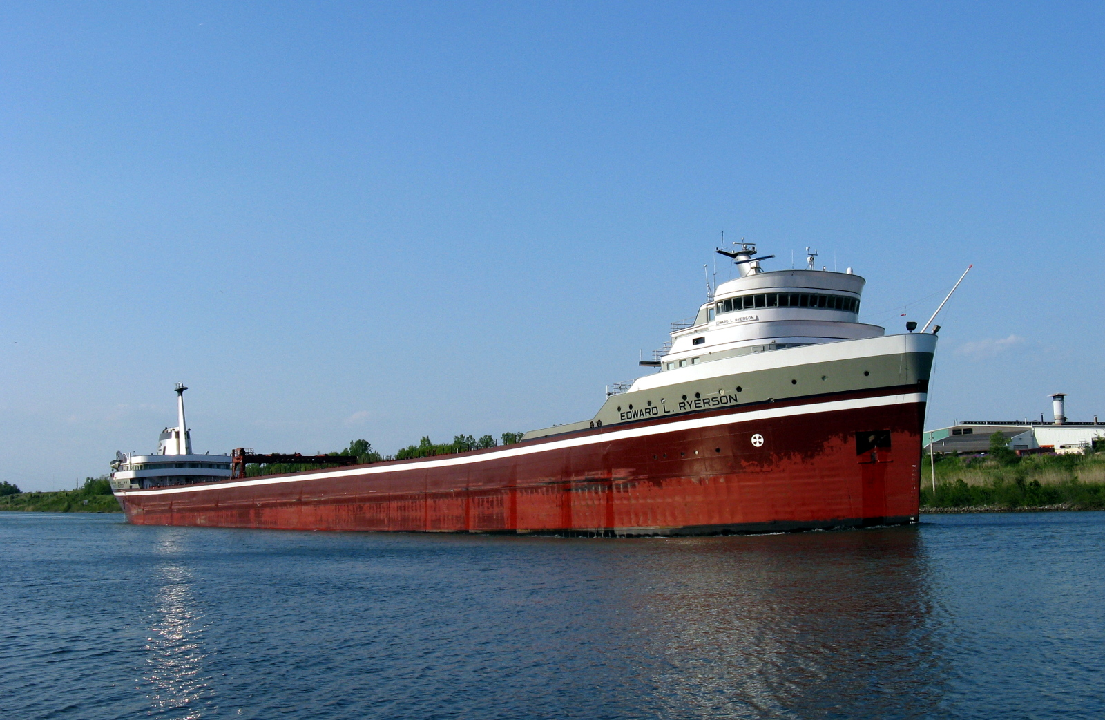 Edward L. Ryerson transiting Welland Canal